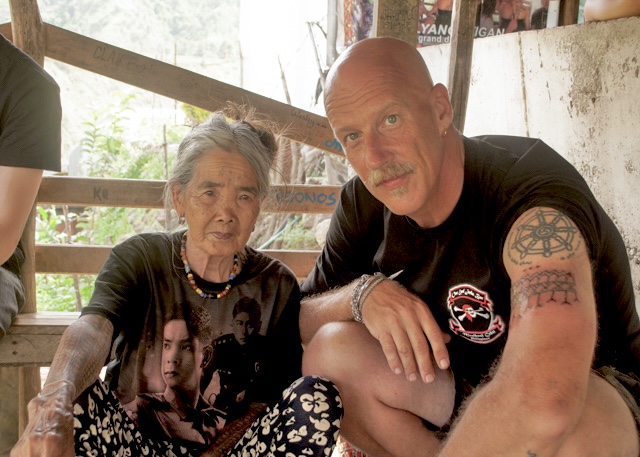 Whang-od and a recently tattooed visitor.